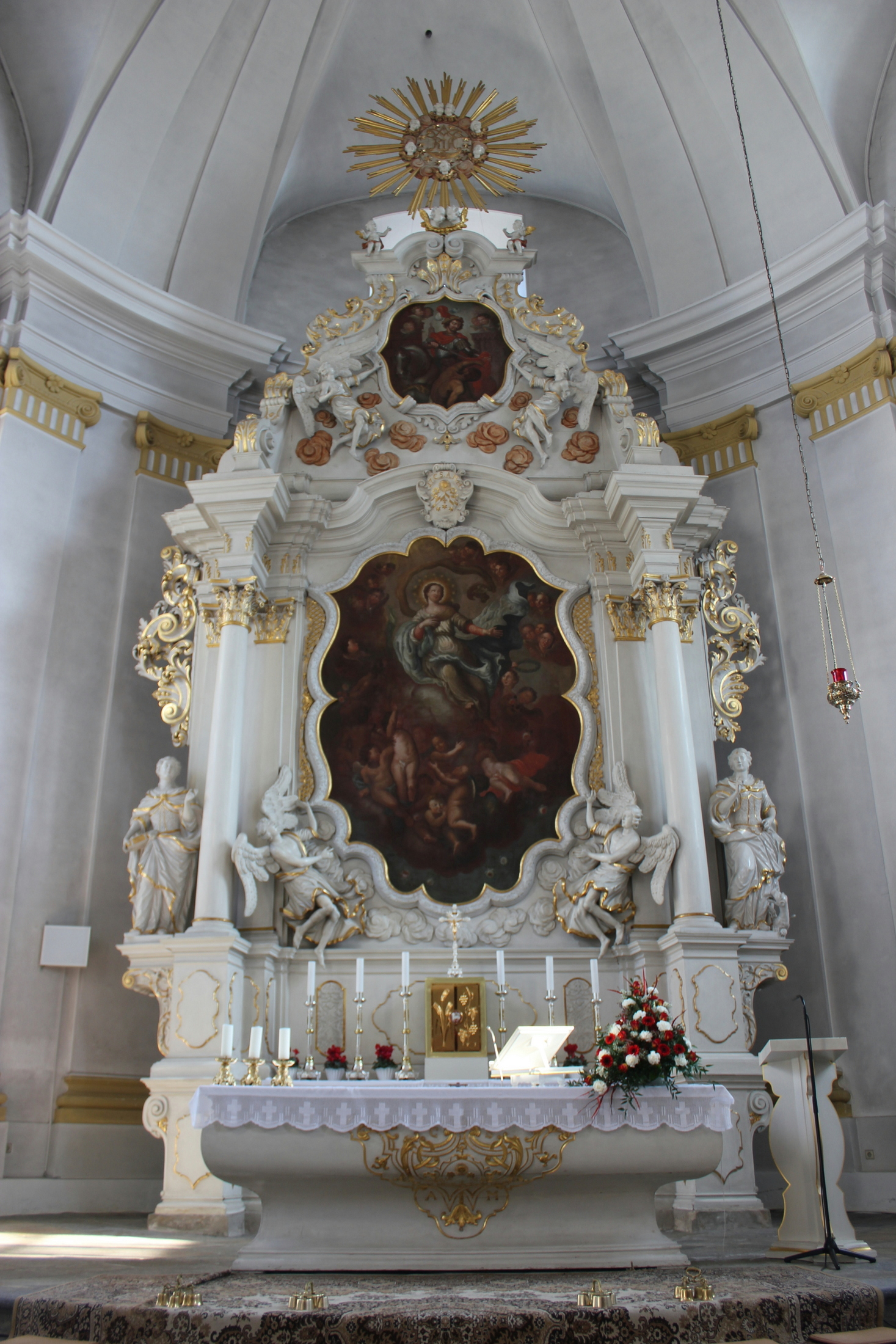 Roman-catholic church of St. Martin in Nebelschütz/Njebjelčicy, Bautzen district, Saxony.